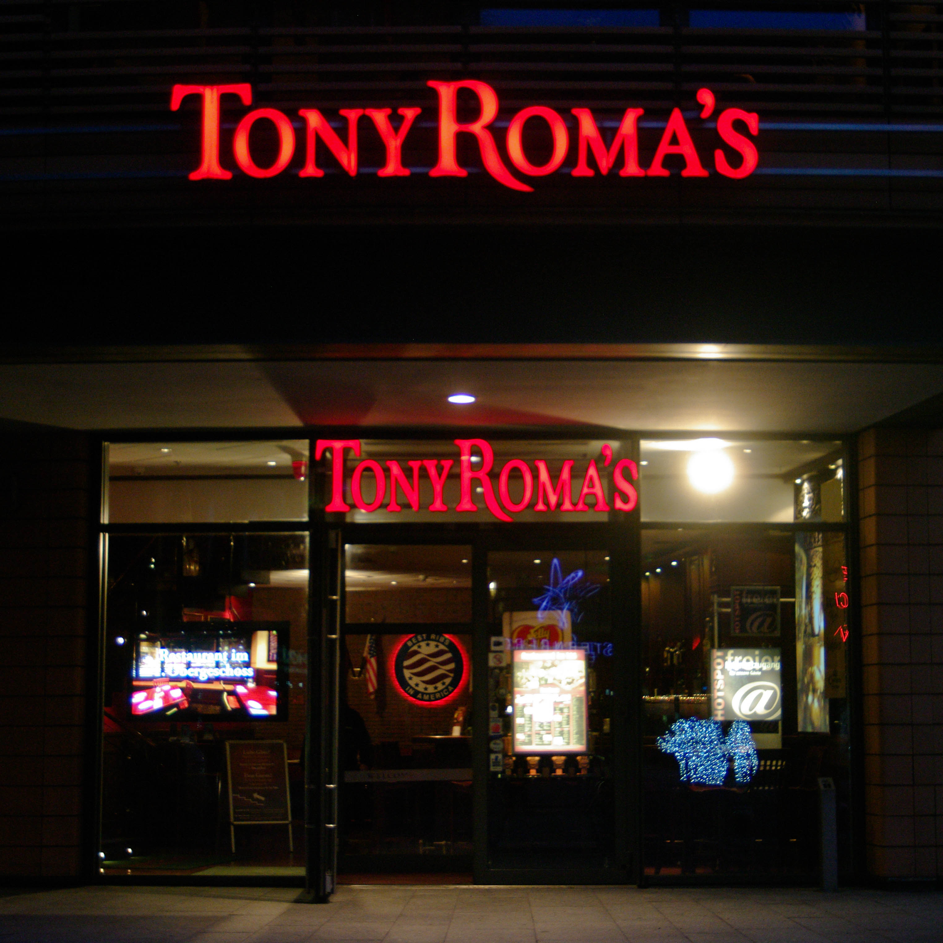 Berlin in winter